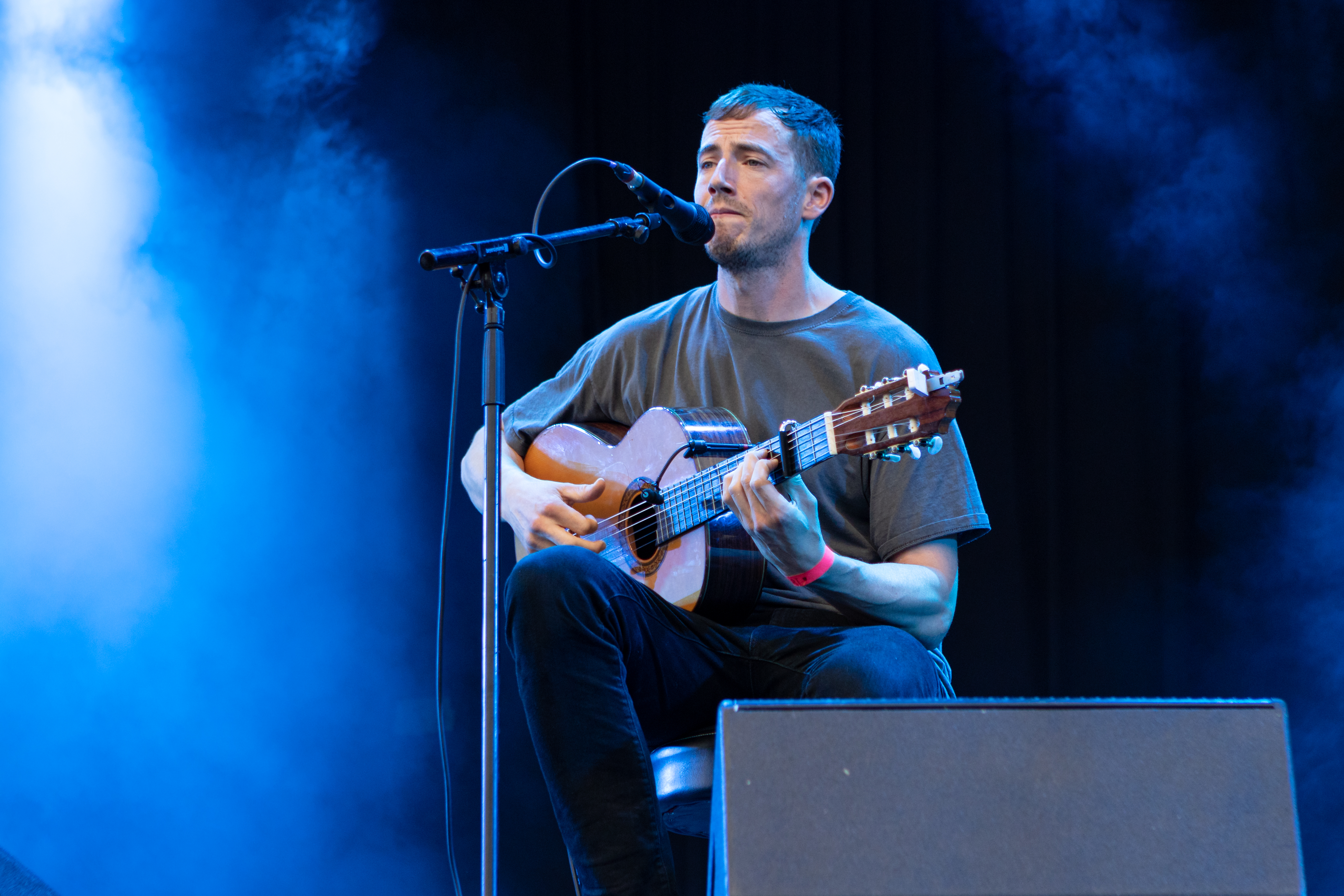 Charlie Cunningham on the Mainstage at Haldern Pop Festival 2019.